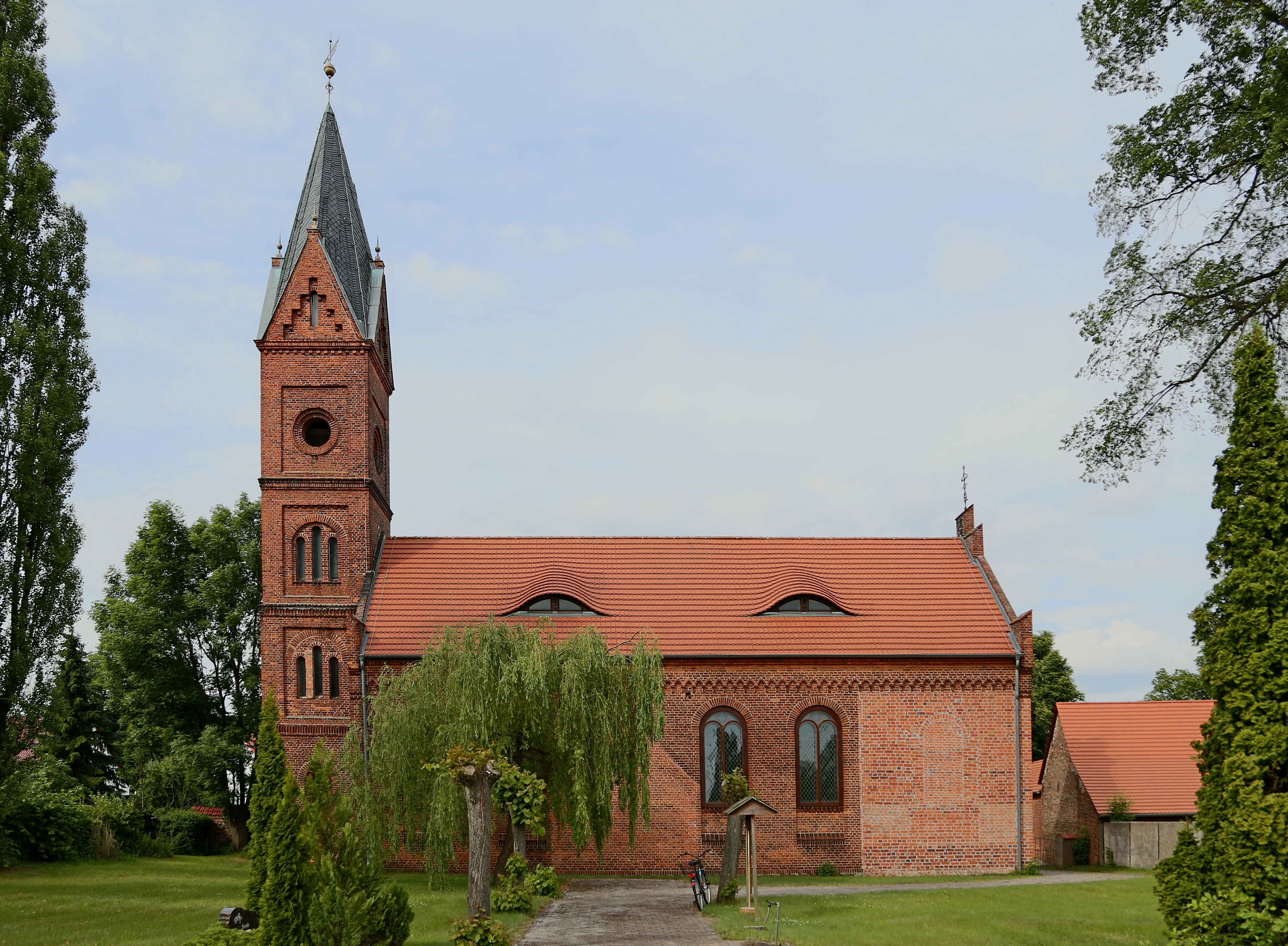 Evangelische Dorfkirche von Pretschen, einem Ortsteil der Gemeinde Märkische Heide, Landkreis Dahme-Spreewald, Brandenburg, Deutschland.